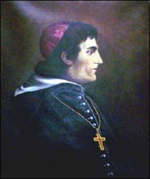 Edward Dominic Fenwick, first bishop of Cincinnati